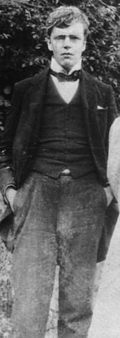 1898 photograph of G.K. Chesterton.